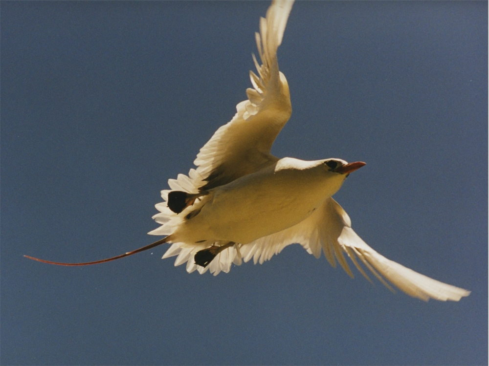 Red-tailed Tropicbird at Midway Atoll. The image was is a scan of the old print. The image was taken by Brocken Inaglory